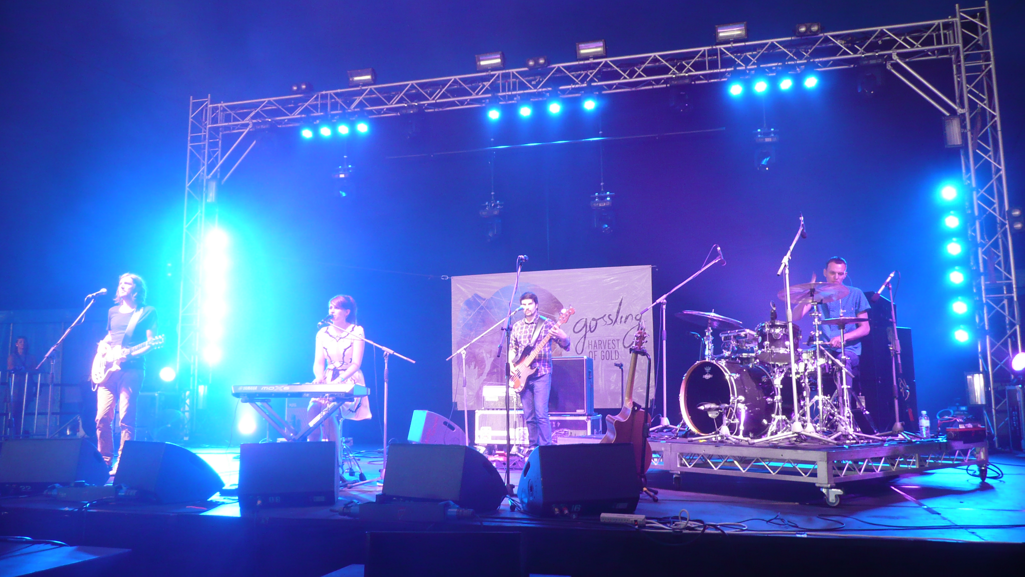 Singer Gossling performing at the 2014 Southbound music festival in Busselton, Western Australia.